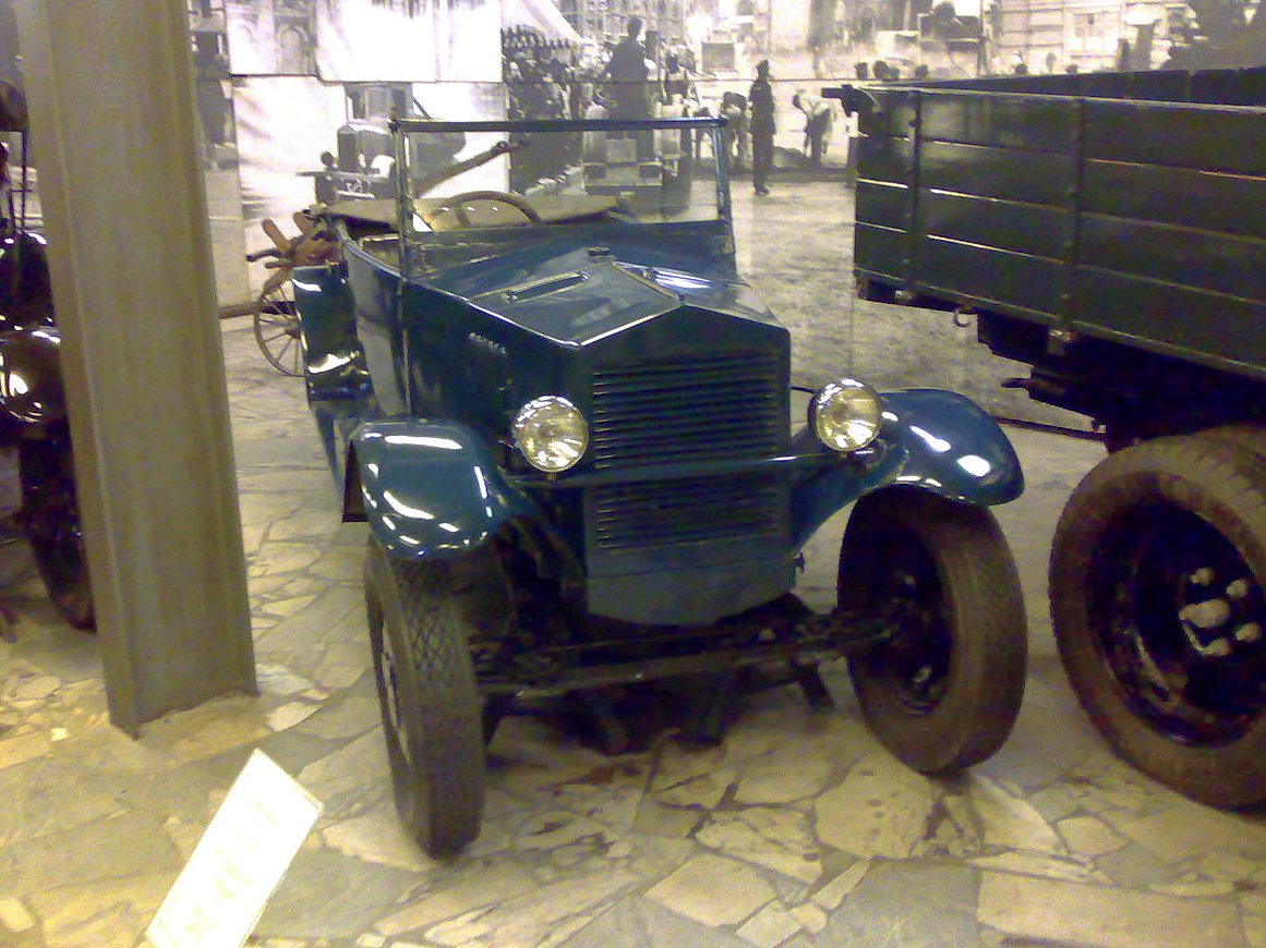 NAMI-1 car in Moscow Polytechnic museum